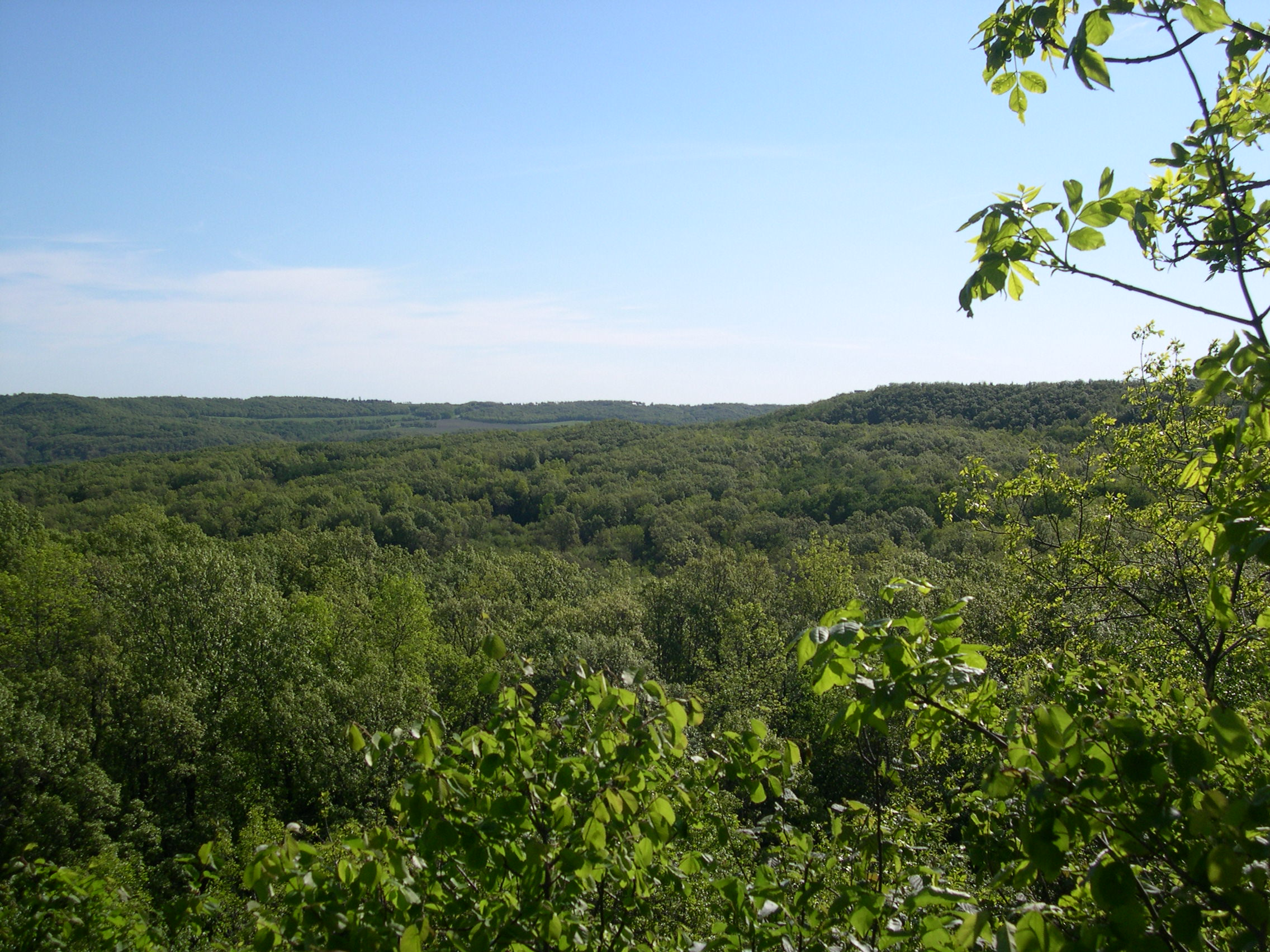 Cranberry Hollow lookout point in the Pembina Valley Provincial Park